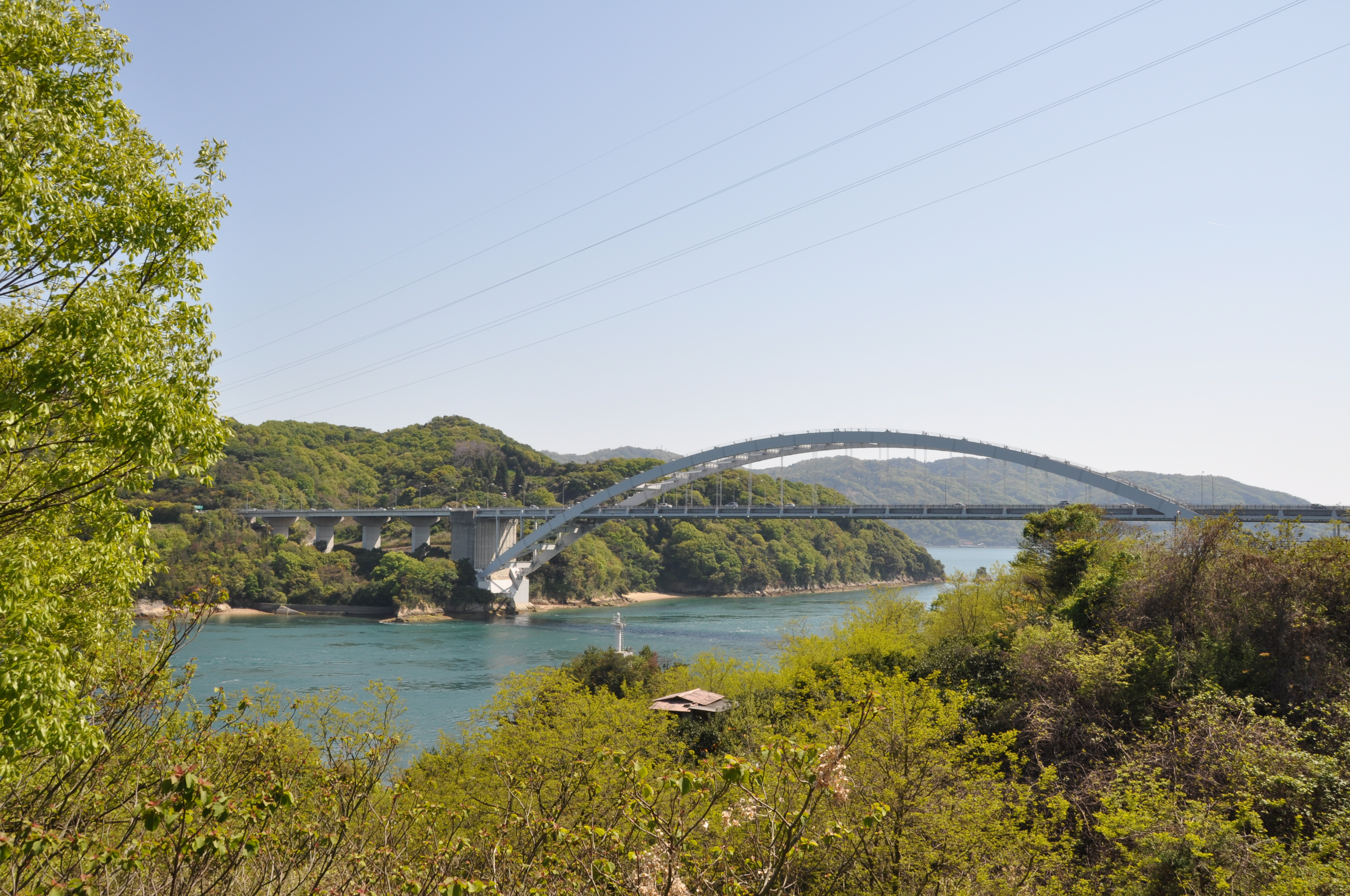 Omishima Bridge in Ehime prefecture, Japan